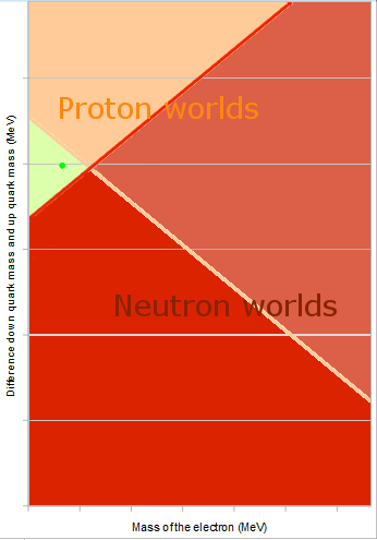 Investigating “fine-tuned” universe: effects of changing down quark, up quark and electron masses on atoms and nuclei. In “Neutron worlds” area a proton in a nucleus can capture an orbiting electron and become a neutron or (near edge) protons in nuclei decay spontaneously - atoms are unstable. In “Proton worlds” area the only stable element are atoms of hydrogen (already deuteron is unstable) – heavier elements don't exist. Highlighted dot in green area (there can exist atomic nuclei with orbitals and heavier elements too) is “our” universe - me = 0.5109989461 MeV, md = 4.7 MeV, mu= 2.2 MeV.1 Created according to "Quarks, electrons and atoms in closely related universes. By Craig J. Hogan, University of Washington. Edited by Bernard Carr, Queen Mary University of London. Publisher: Cambridge University Press. "by OpenOffice Calc